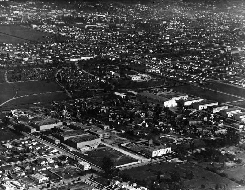 Movie studios in the Hollywood area from the air, as it appeared in 1922. The street near the bottom of the photograph is Melrose. Gower is the intersecting street which goes up to the left. In this corner, Pat Powers, Robertson-Cole, the Film Booking Office and RKO were located. To the right of the photograph near Van Ness, Brunton, United Studio, Famous Players and Paramount are visible. Darmour Studio is in the background, above the Hollywood Cemetary, near Santa Monica Blvd.